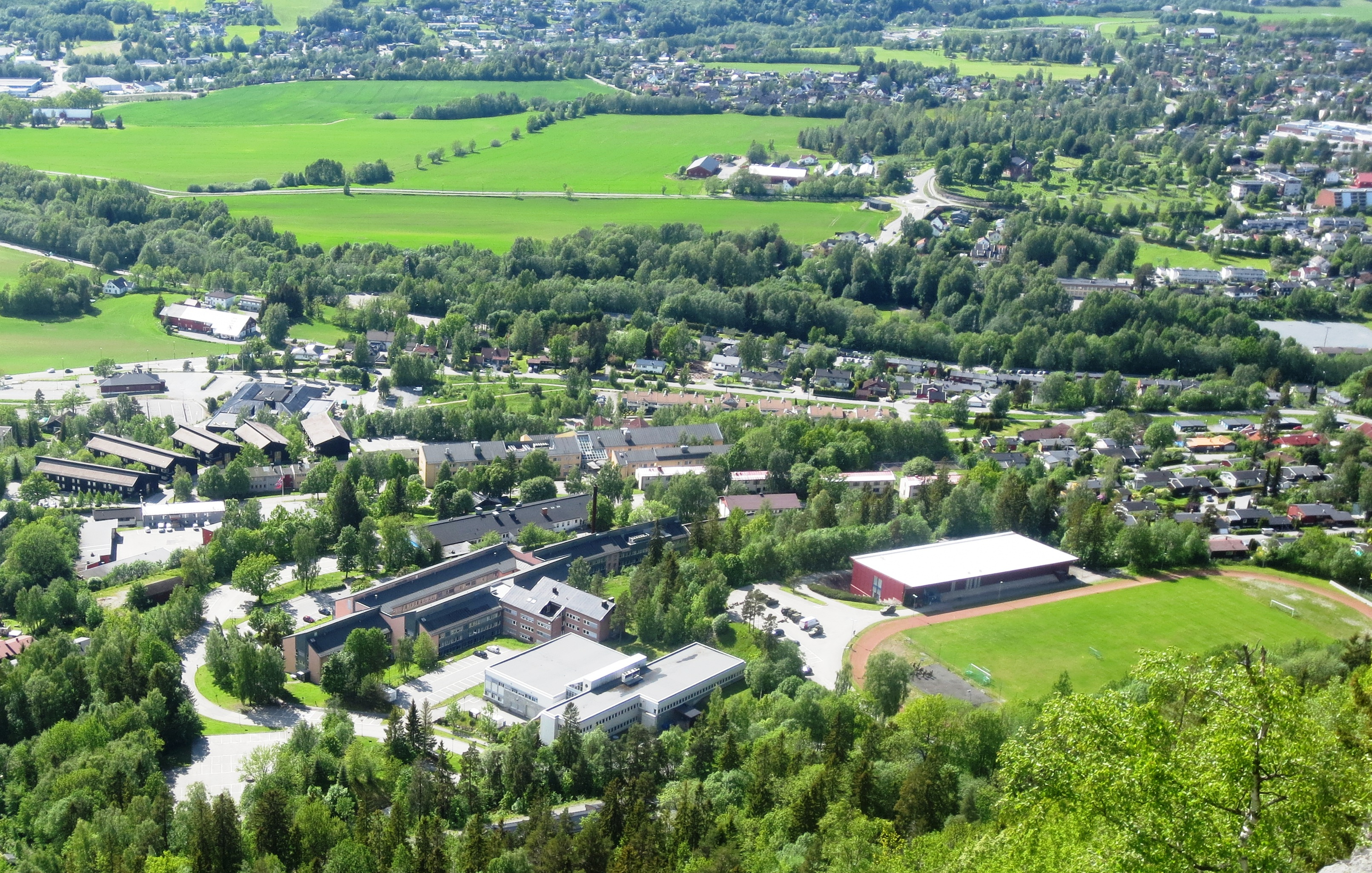 Panoramic view over the Kolsaas military camp and former NATO facility, Bærum, Norway